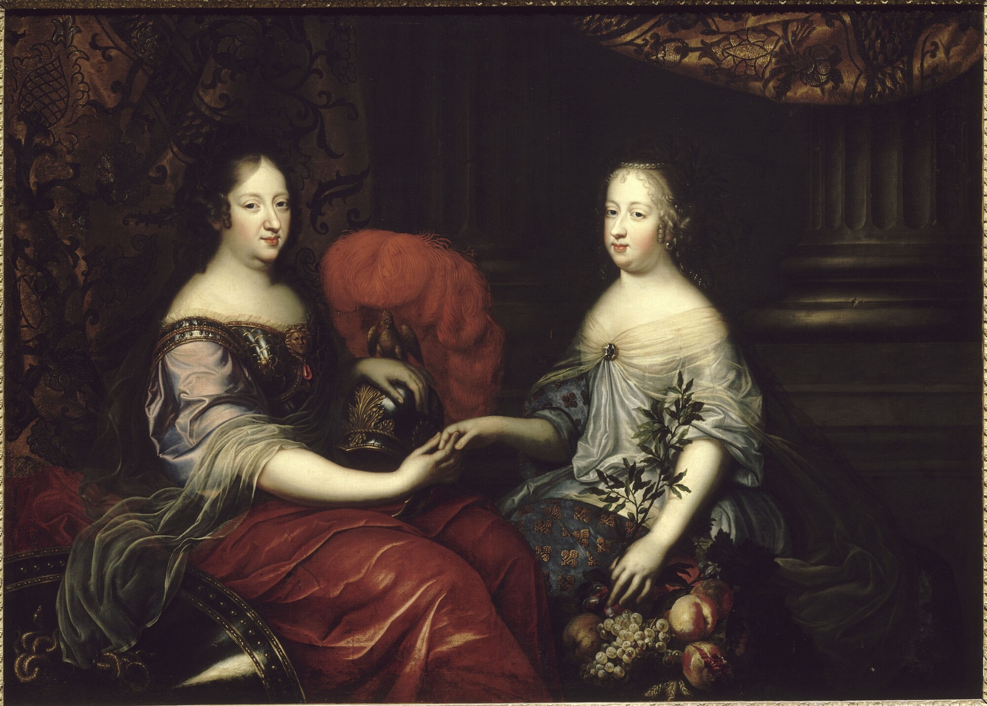 Anne of Austria with Queen Marie Thérèse